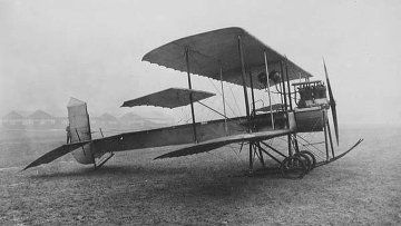 The Gakkel-VII biplane (c.1911)